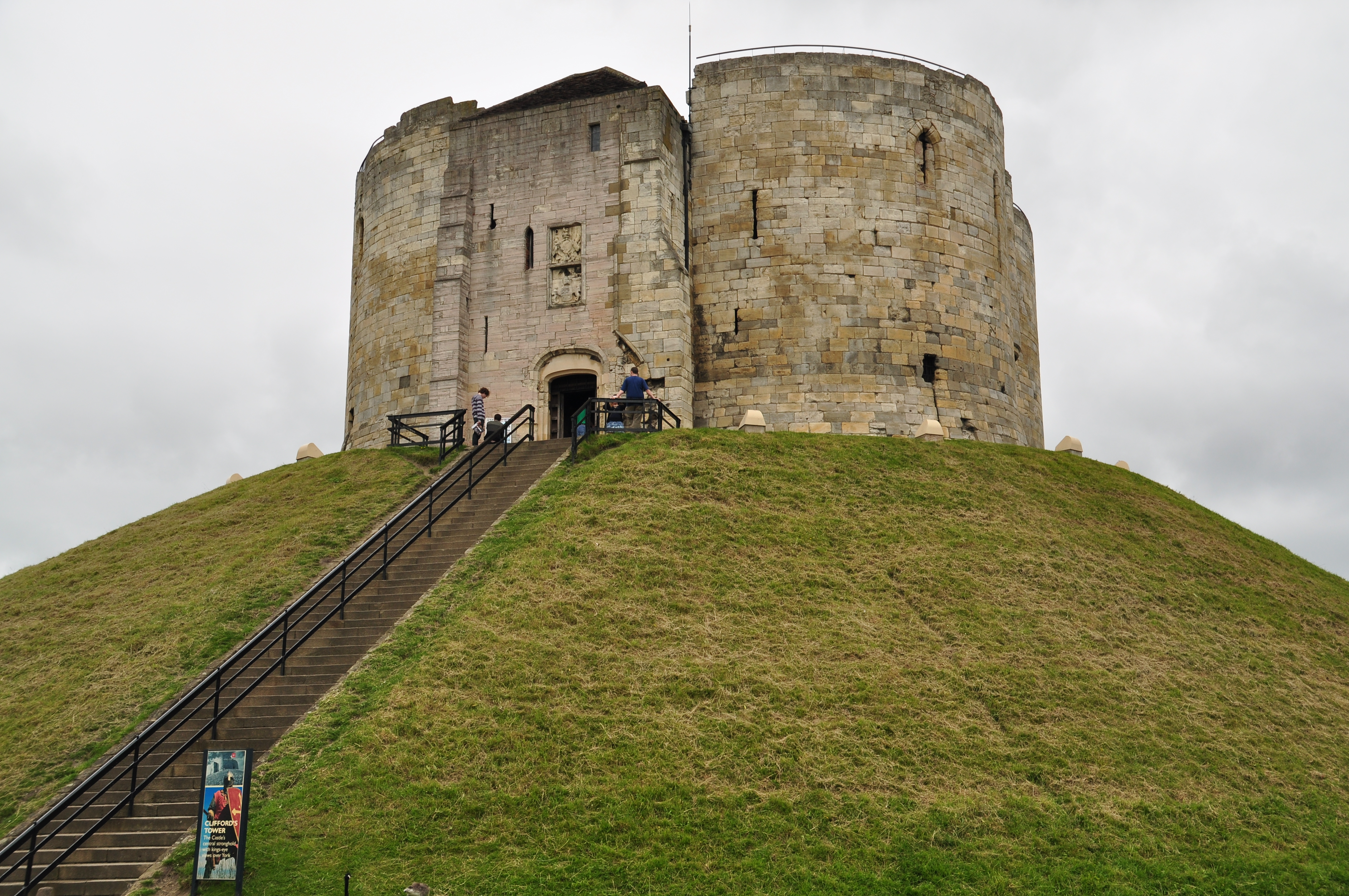 Clifford's Tower